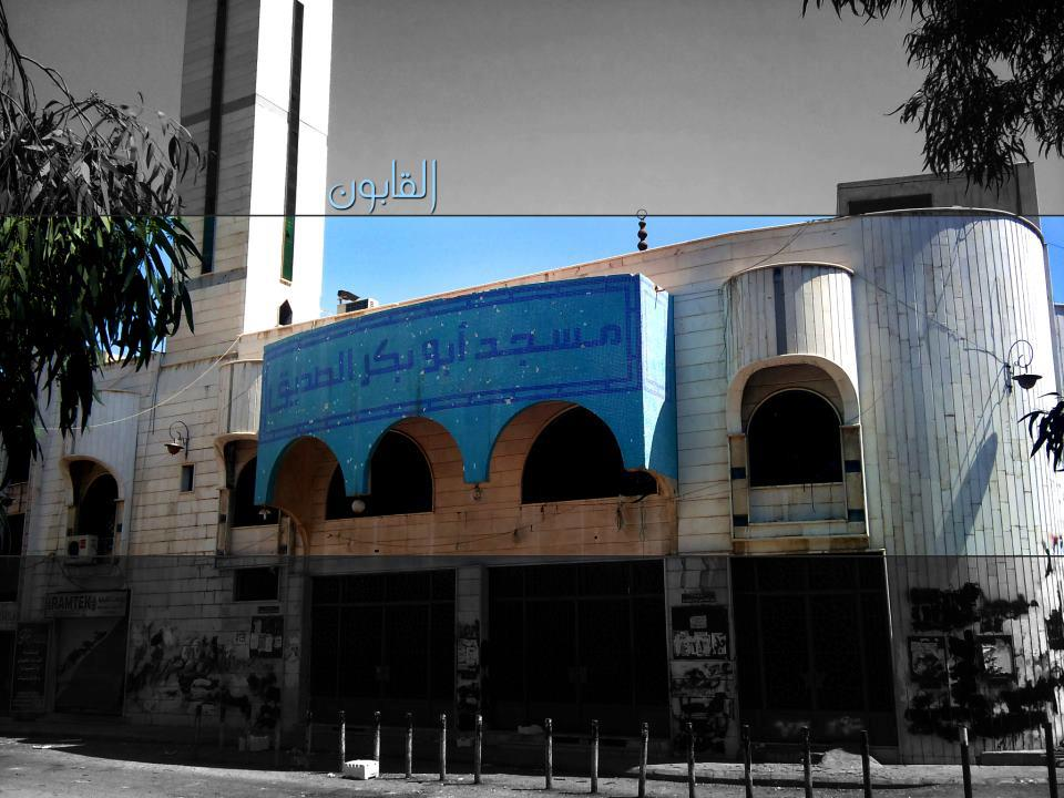 ABO BAKER ALSEDIIK MOSK IN QABOUN